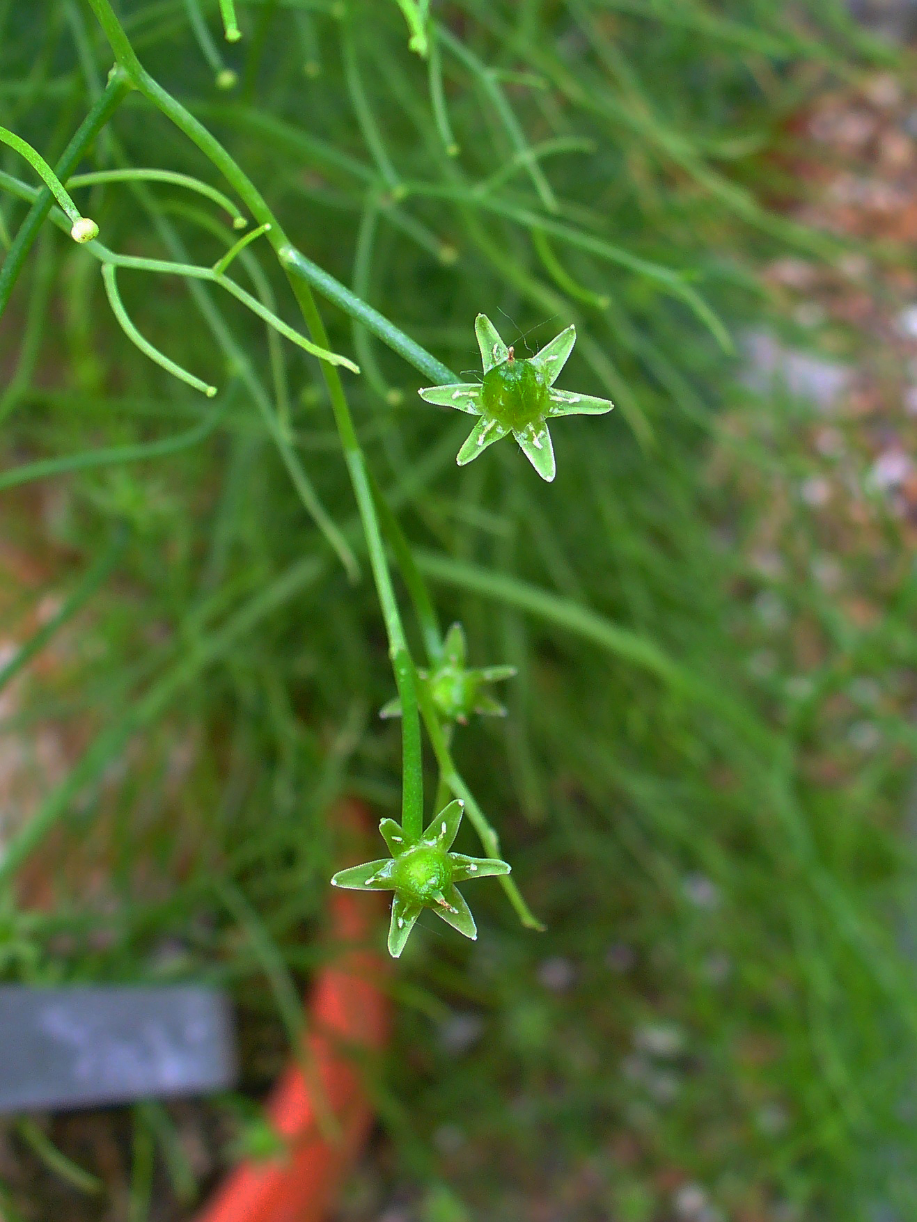 Bowiea volubilis, Hyacinthaceae, Climbing Onion, Zulu Potato, flowers; Botanical Garden KIT, Karlsruhe, Germany.